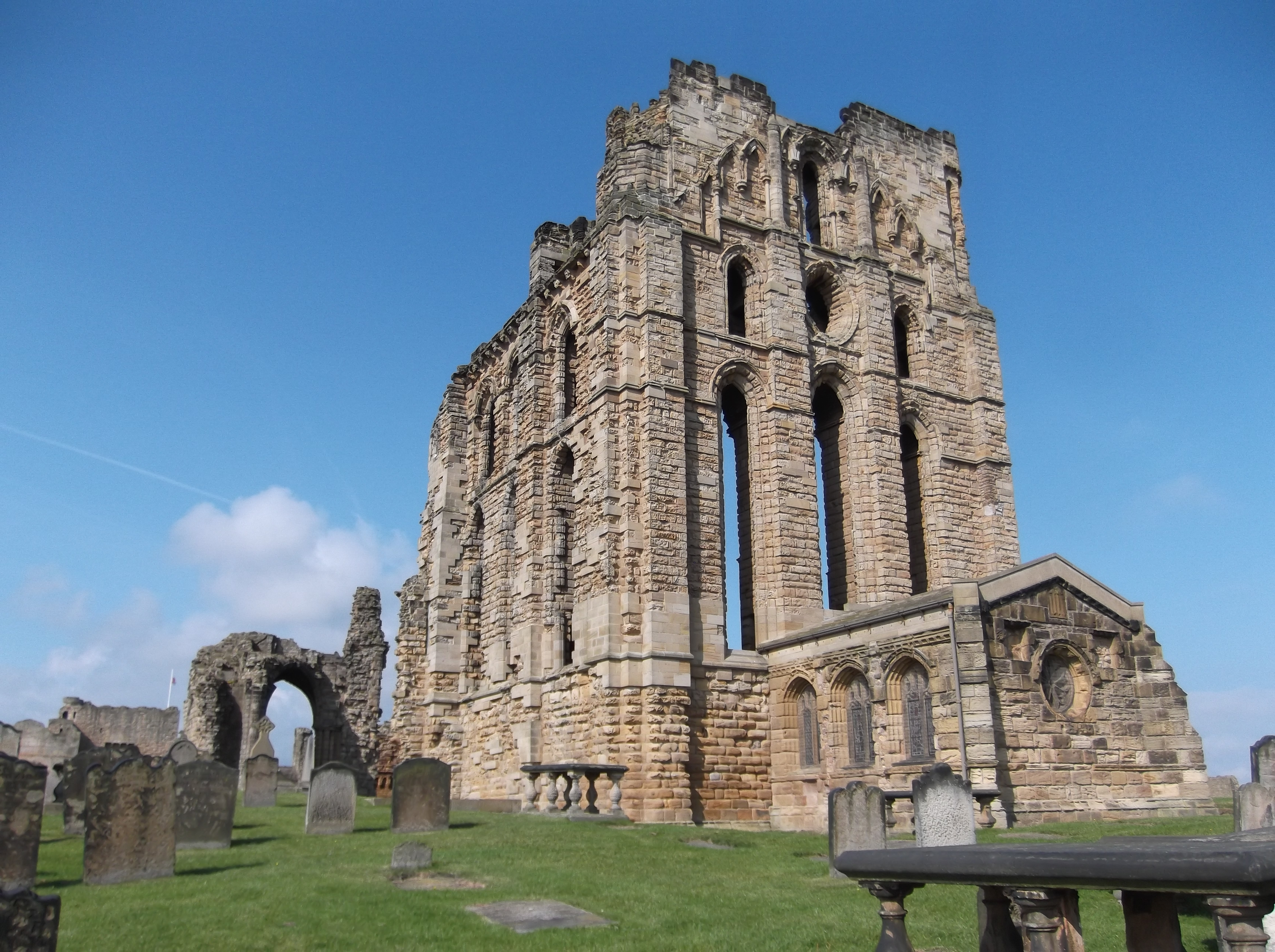 Photograph of the remains of Tynemouth Priory, Tyne & Wear, England